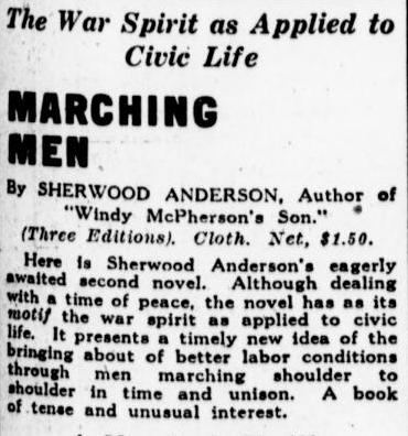 Advertisement for the Sherwood Anderson's novel Marching Men. This ad was the first entry in a box titled "Four New Books" along with three others and placed by Anderson's publisher John Lane Co.. It appeared in various newspapers.